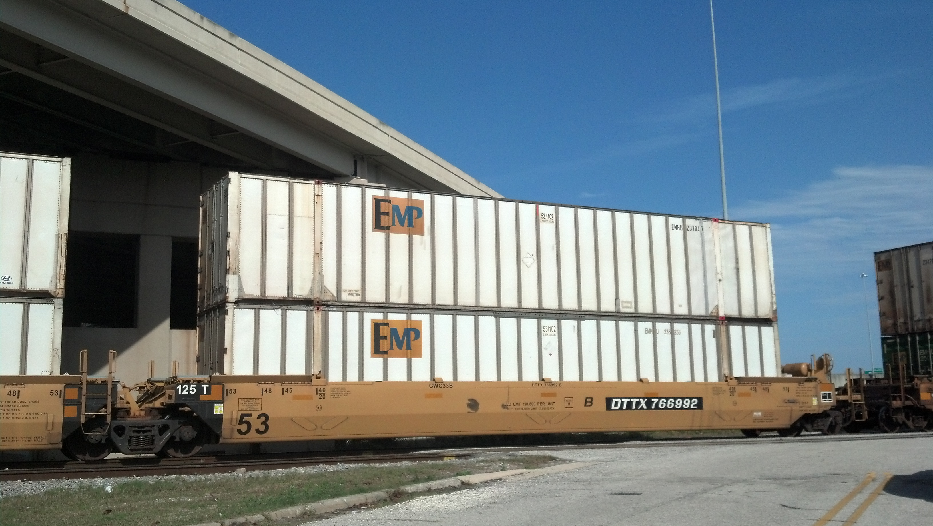 A freight train passing through the San Marco area of Jacksonville, Florida. Photo by Anthony M. Inswasty